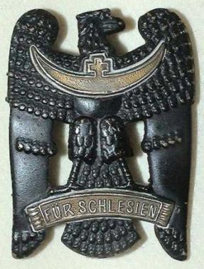 y